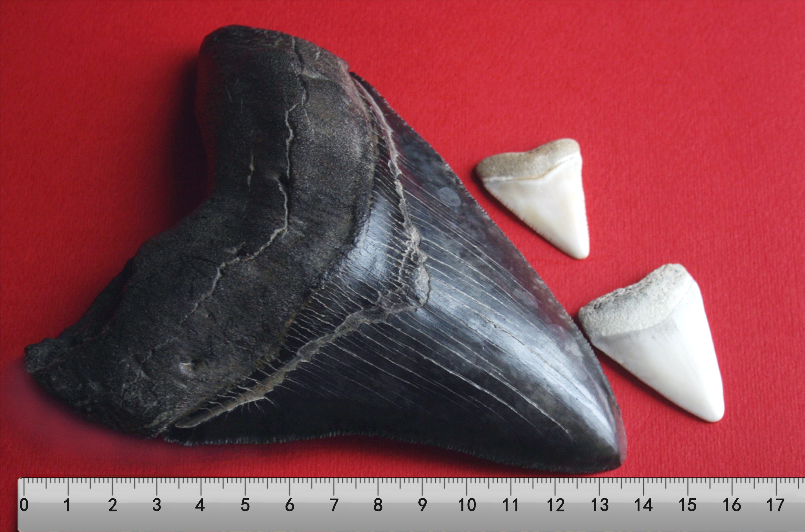 Megalodon tooth with two great white shark teeth and with a ruler to see the size The 36cm computer-drawn ruler.